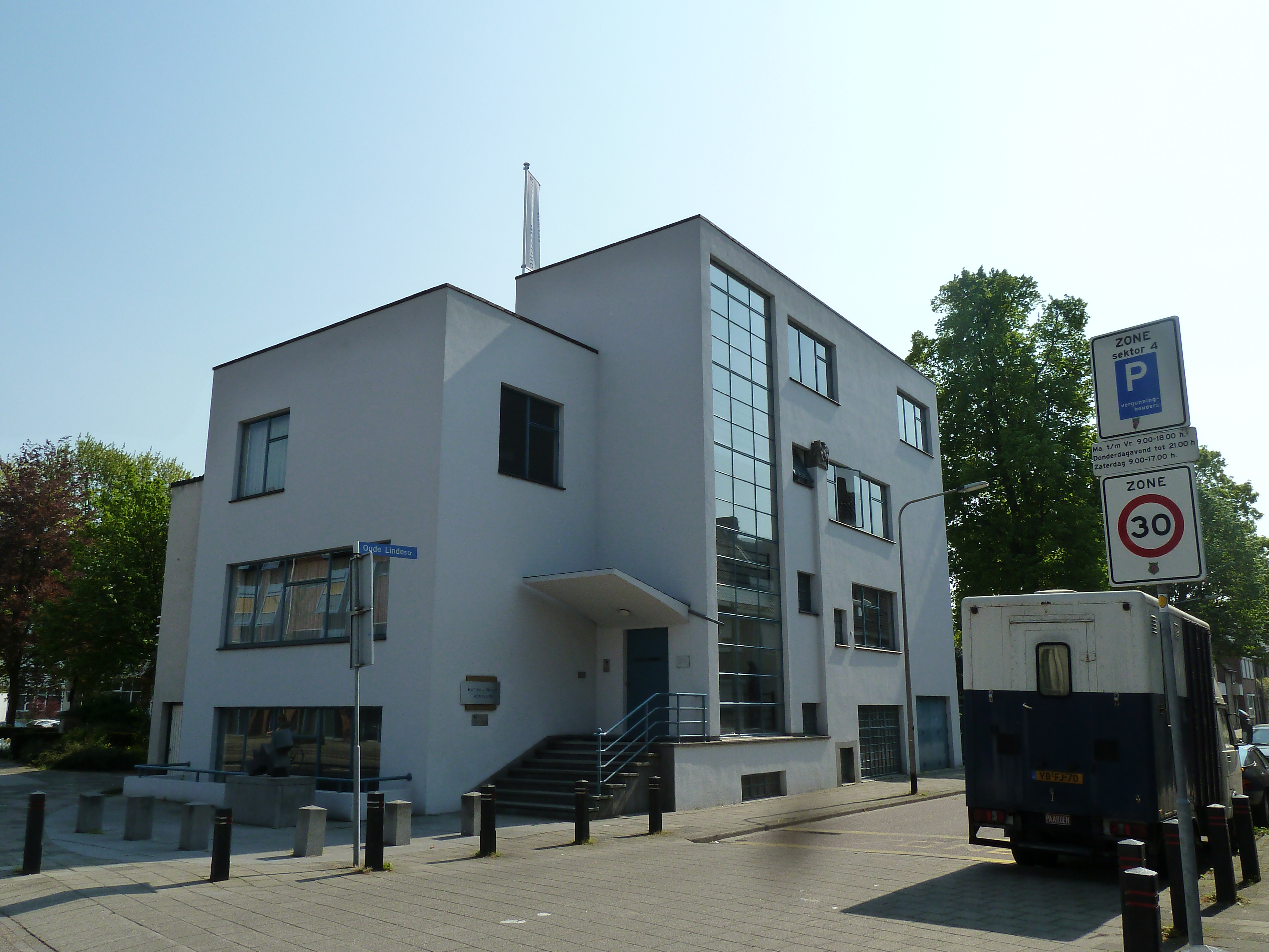 "Huis op de Linde", studio-house, designed by Frits Peutz in 1931, restored in 1991. Oude Lindestraat 1, Heerlen, Limburg, the Netherlands